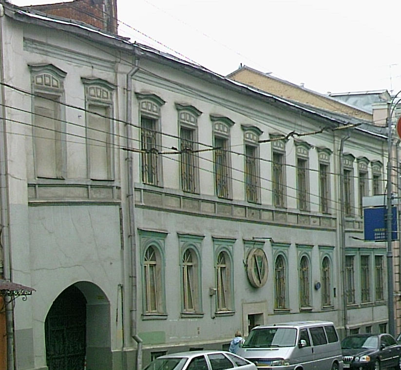 View of the main building of 5, Petrovskiy Boulevard in Moscow (build in 1846, in 1904-1938 - composer R. Gliere lived and worked here)